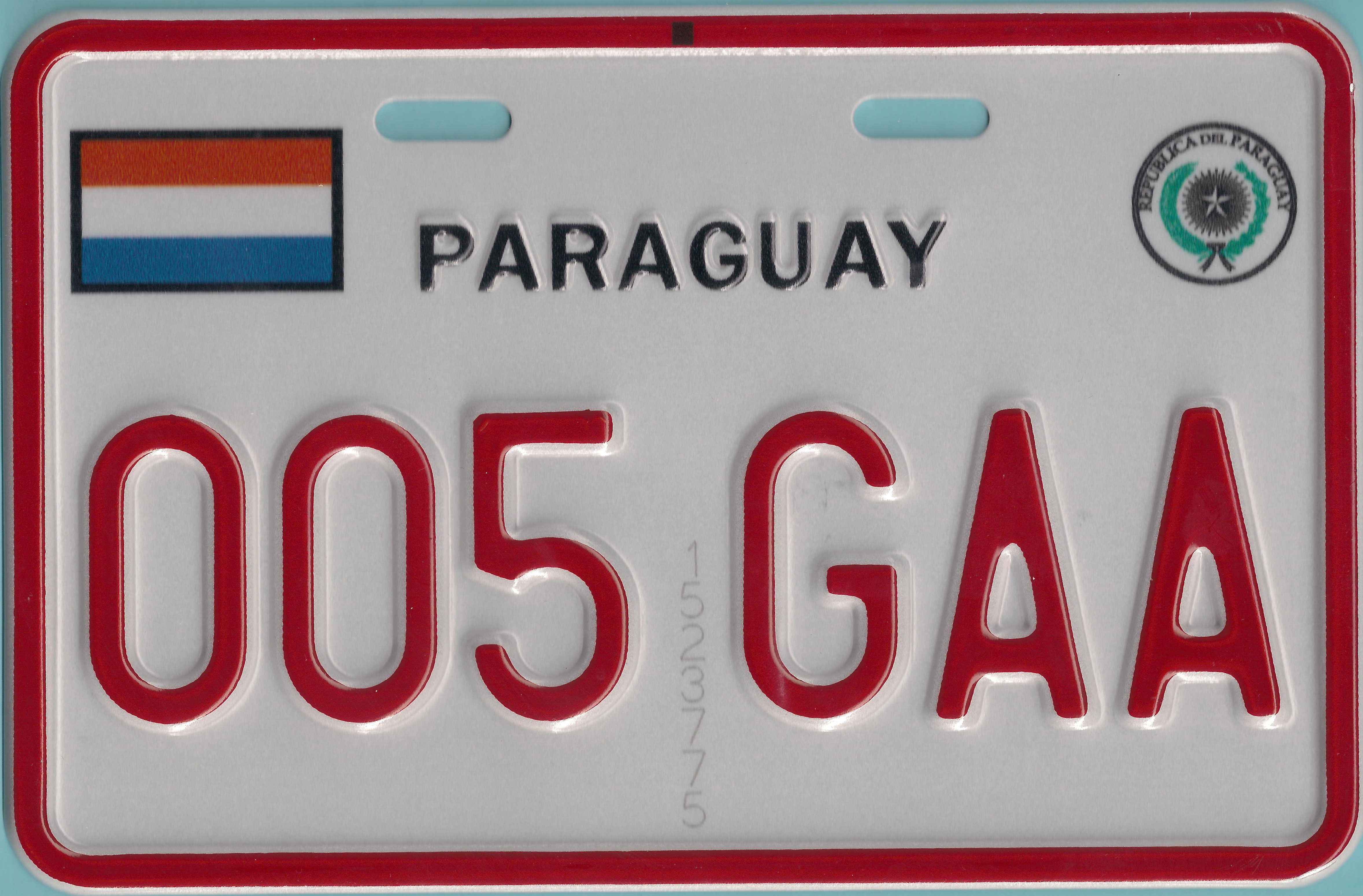 Paraguayan motorcycle licence plate